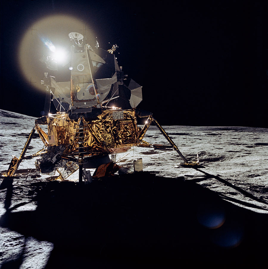 Sample of lens flare. (Yes, even a top-quality Zeiss lens on a Hasselblad can have flares!)